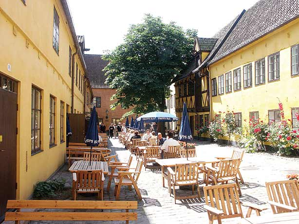 The old buildings in the block of "St Gertrud" in Malmo, Sweden.